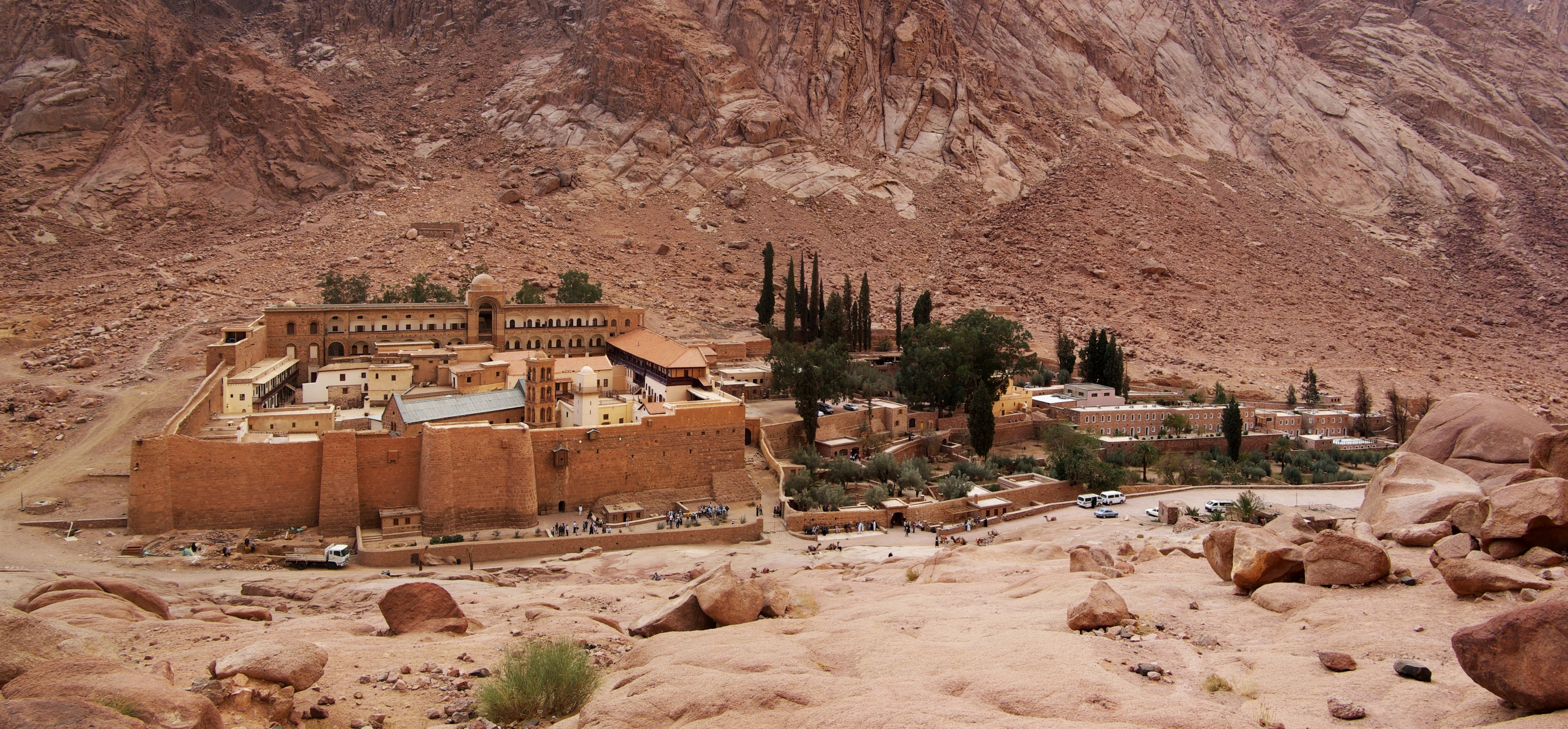 Saint Catherine's Monastery, Sinai, Egypt.